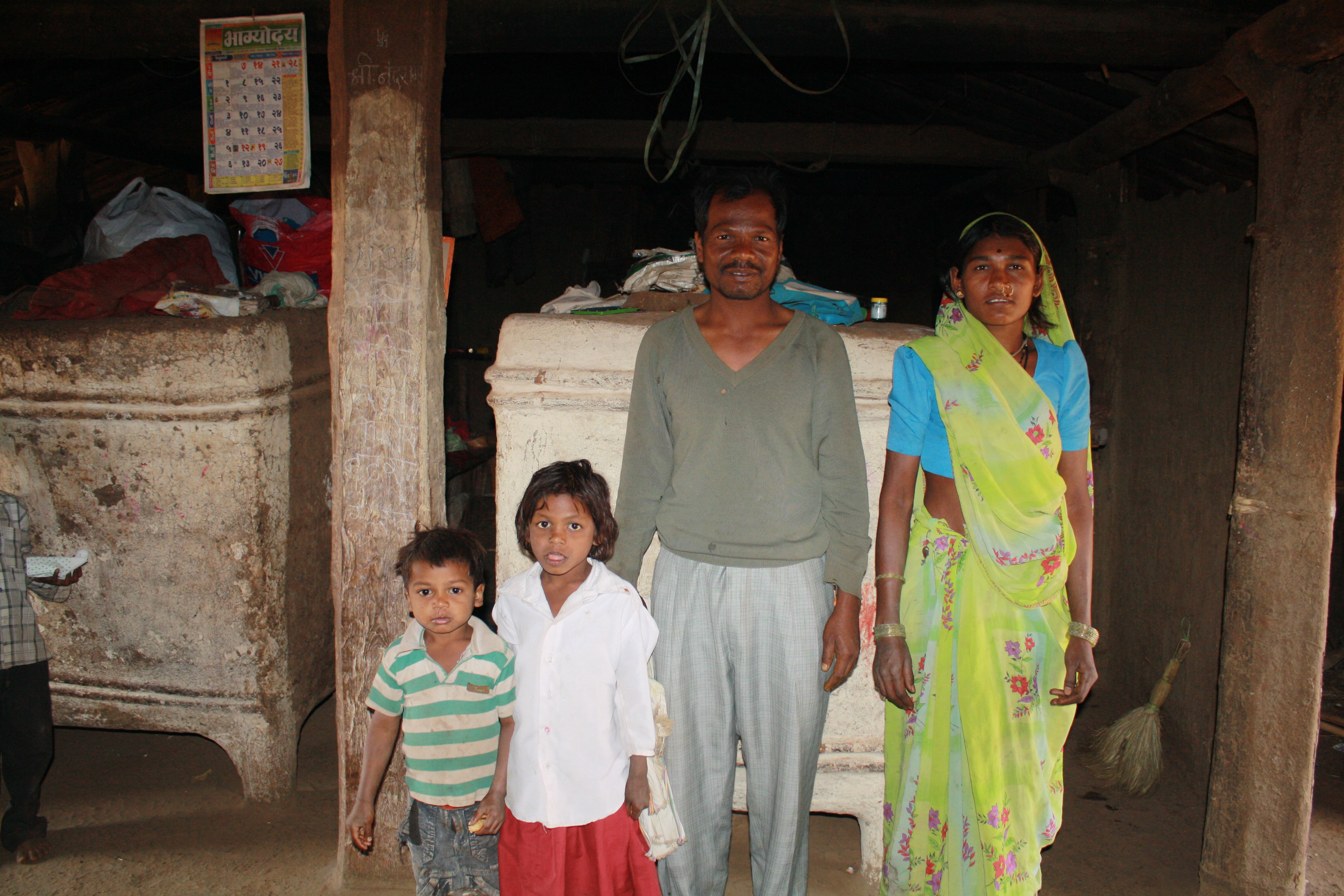 Korku tribal in Melghat, Maharashtra (1)